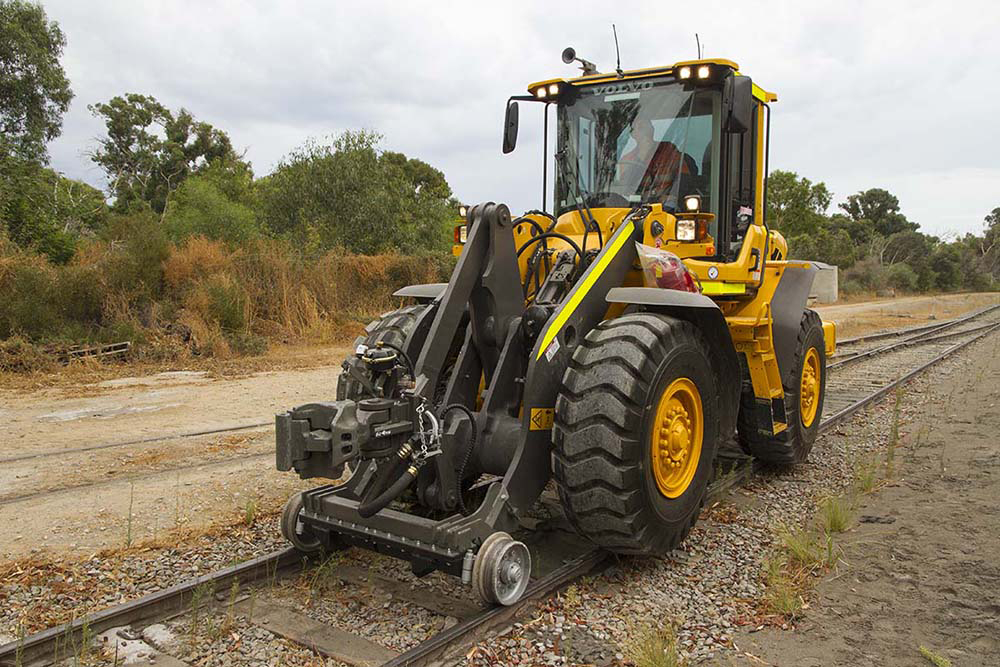 A Volvo L70F loader fitted with Aries Hyrail road-rail vehicle conversion and train braking system.